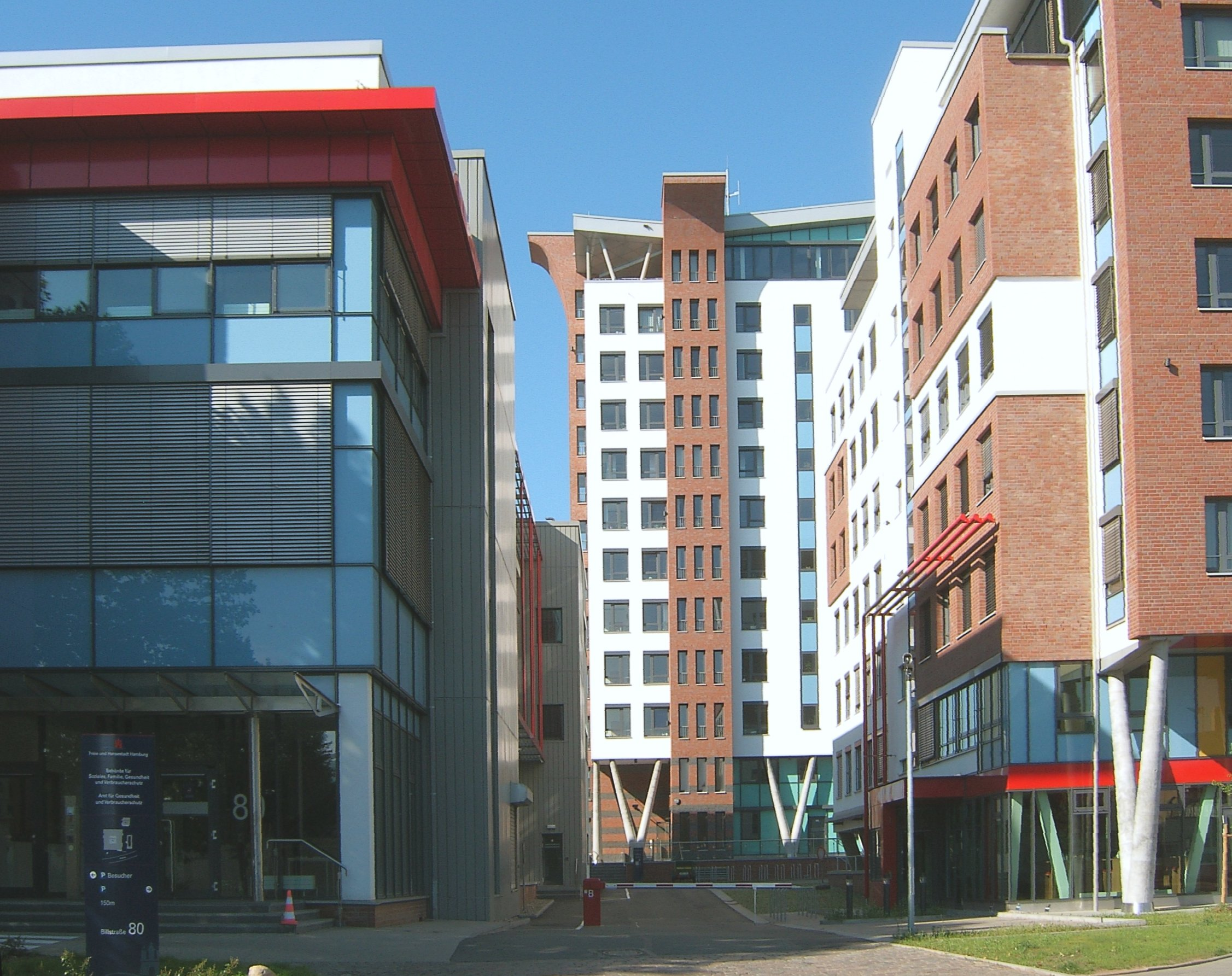 The Senate Authority for Health and Consumer Protection